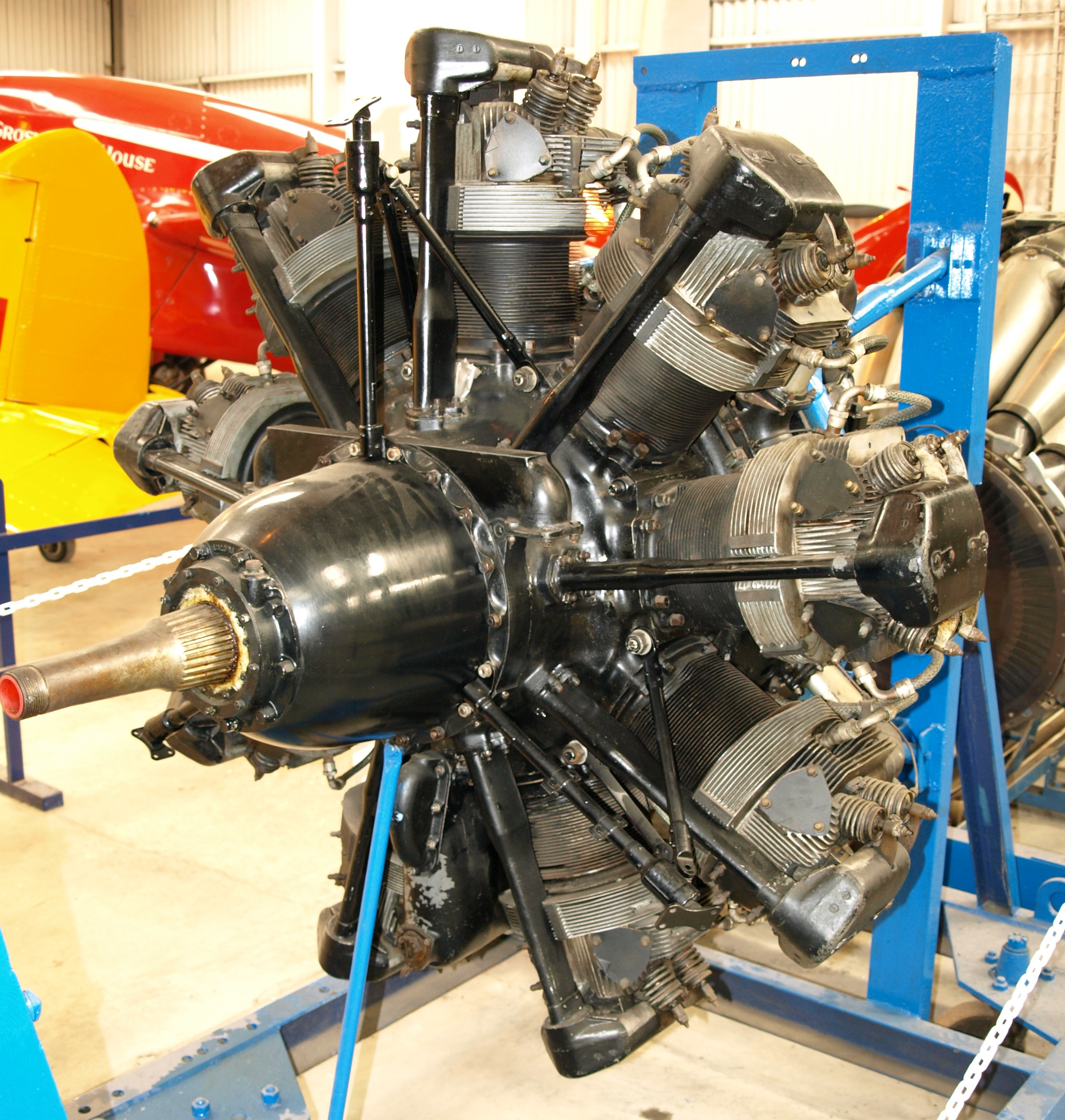 Bristol Mercury Mk VII aircraft piston engine on display at the Shuttleworth Collection.